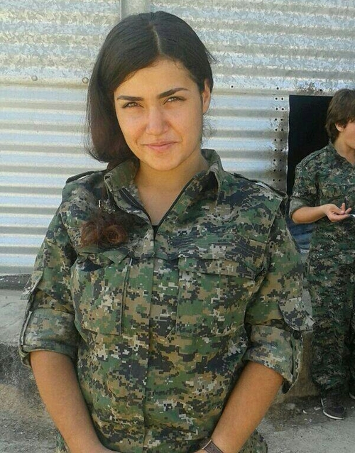 YPG's female fighter with a standard uniform